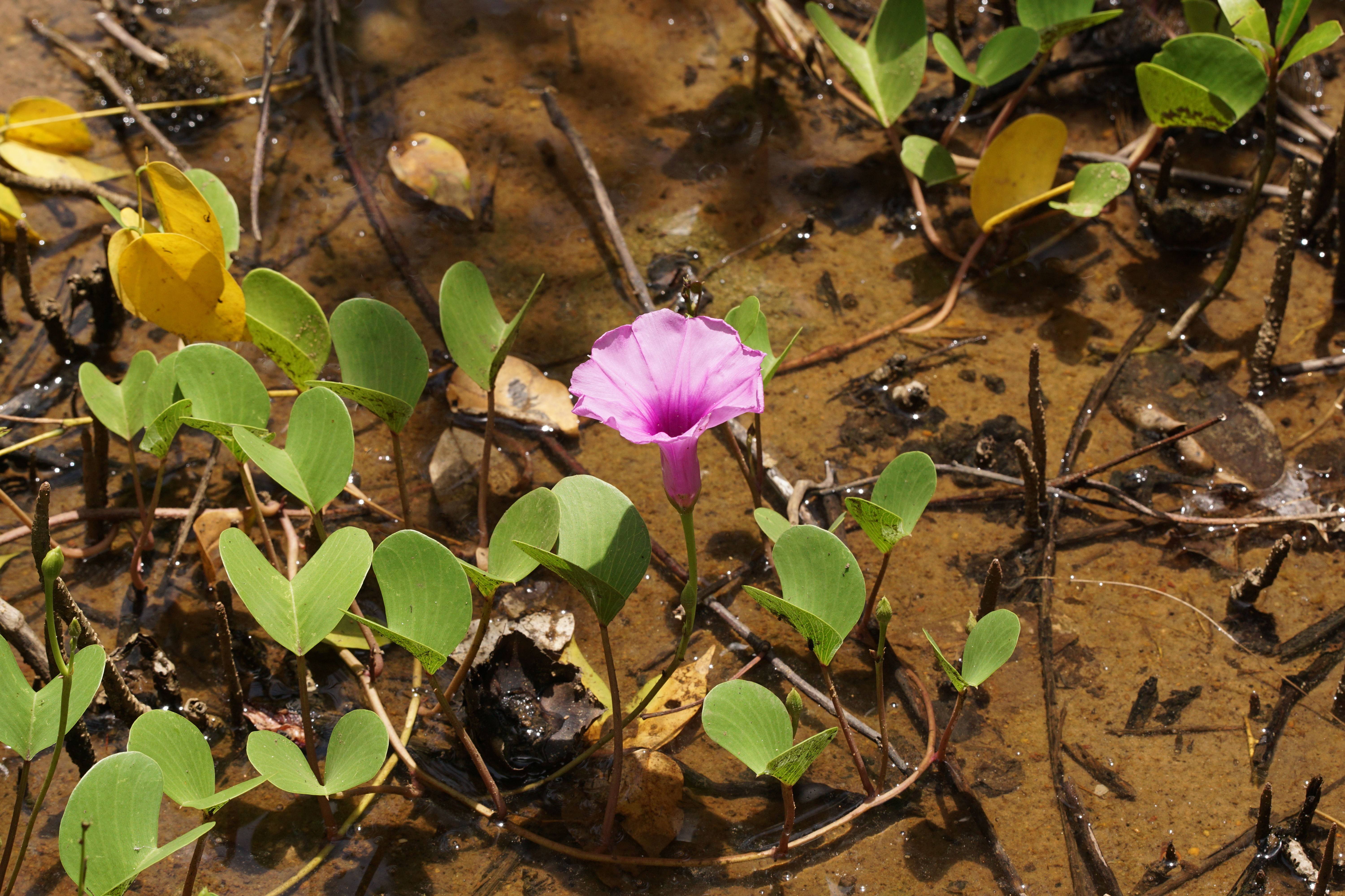 Convolvulus pes-caprae